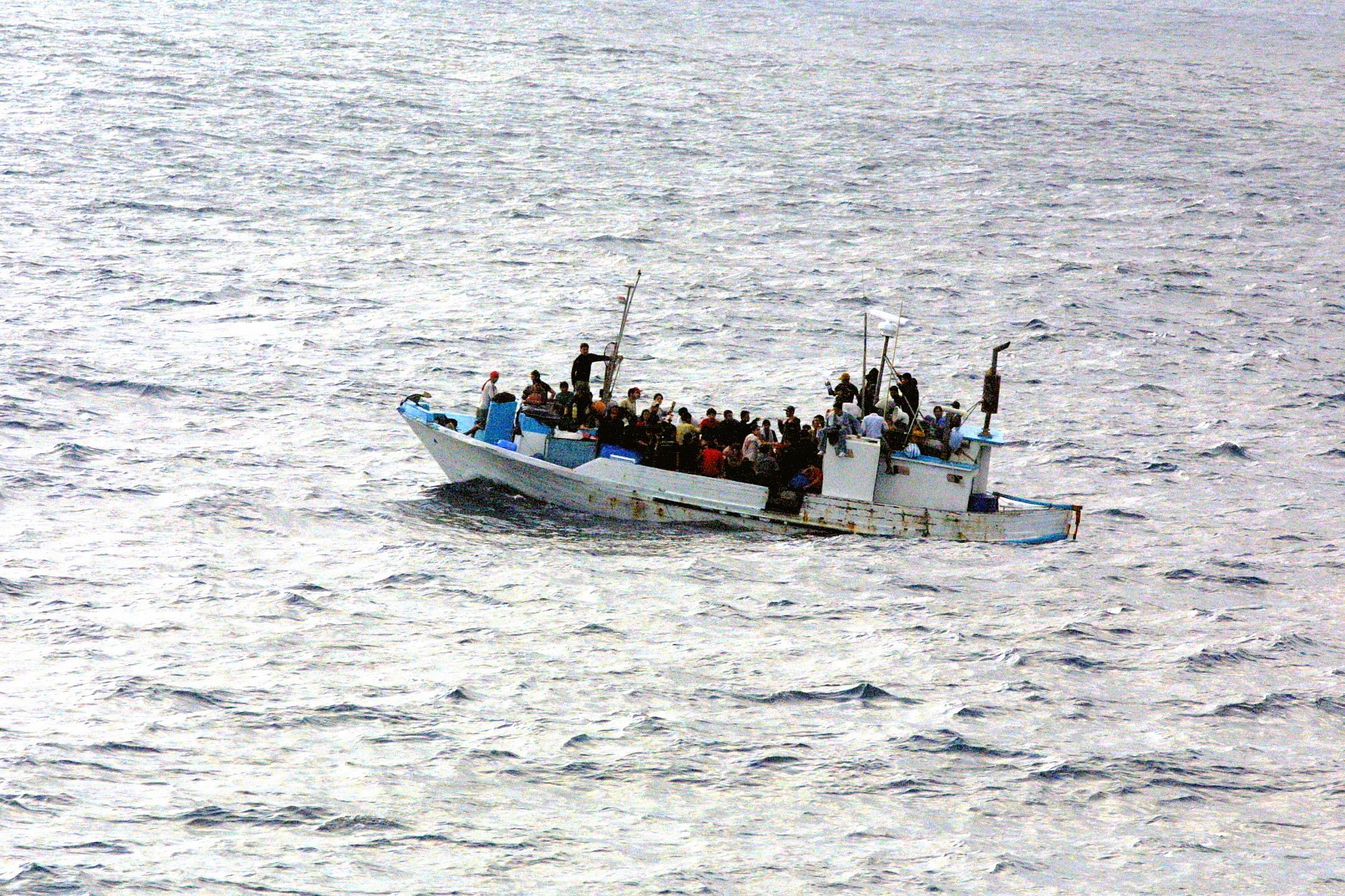 A distressed vessel discovered by the US Navy (USN) Oliver Hazard Perry Class Guided Missile Frigate USS RENTZ (FFG 46) 300 miles from shore with 90 people on board, including women and children. The RENTZ provided assistance and took the Ecuadorian citizens to Guatemala, from where they would be repatriated.